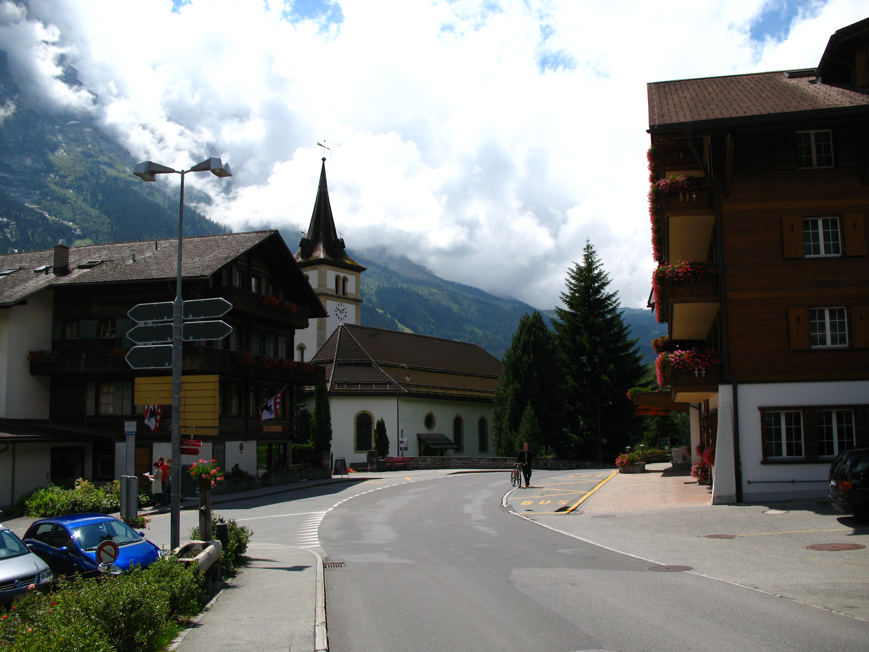 Church on Gydisdorf, Grindelwald, Switzerland - OpenStreetMap(Info)